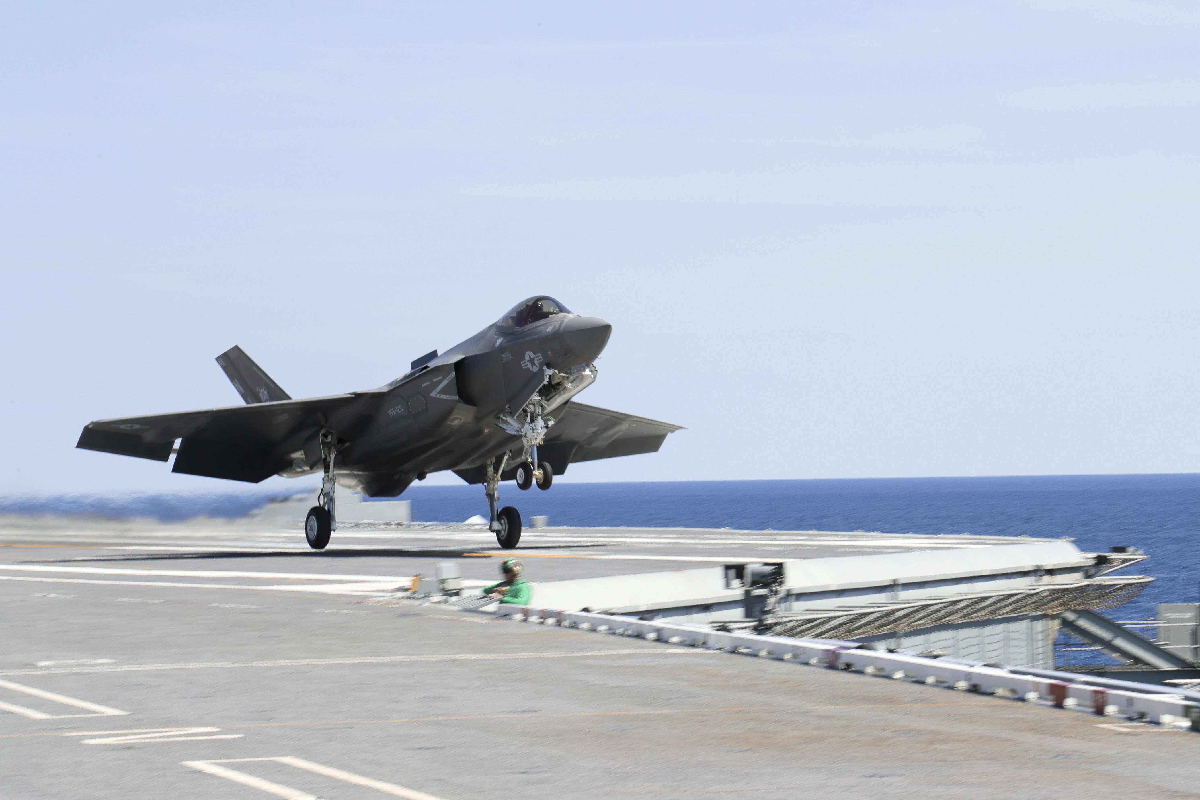 ATLANTIC OCEAN (Sept. 4, 2017) An F-35C Lightning II assigned to the Grim Reapers of Strike Fighter Squadron (VFA 101) launches off the flight deck of the Nimitz-class aircraft carrier USS Abraham Lincoln (CVN 72). Abraham Lincoln is underway conducting training after successful completion of carrier incremental availability. (U.S. Navy photo by Mass Communication Specialist 1st Class Josue Escobosa/Released) 170904-N-CT127-0252 Join the conversation: navylive.dodlive.mil